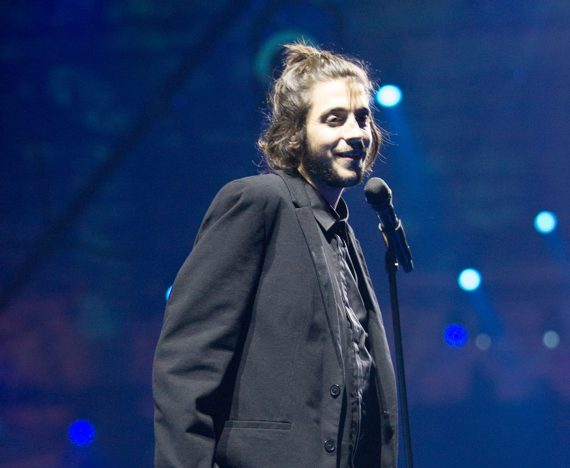 Portugal 2017 - Final Dress Rehearsal